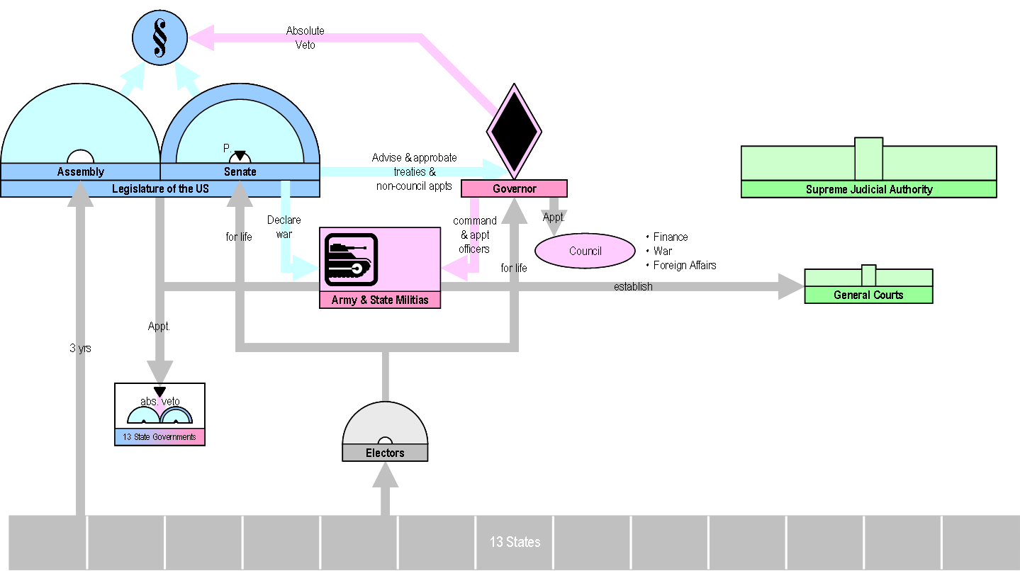 A diagram of the Hamilton Plan presented at the Constitutional Convention in the United States in 1787.